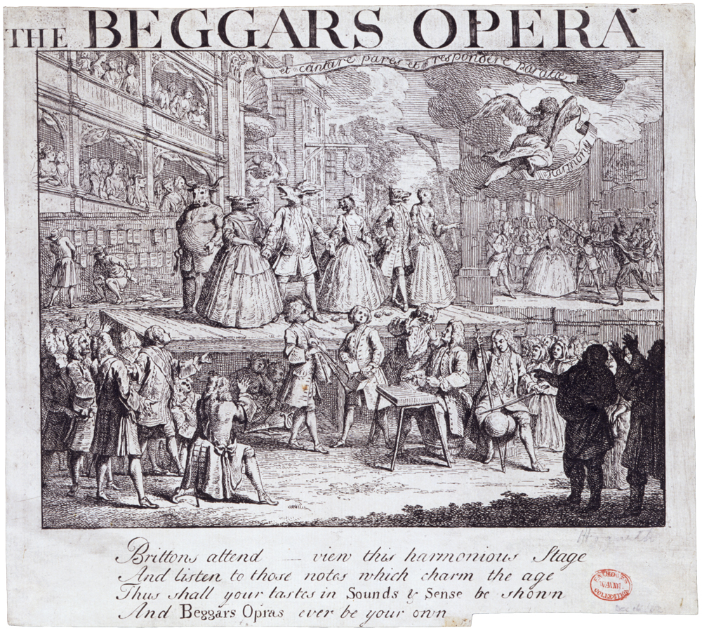 William Hogarth the beggar's opera early to mid 18th century, engraved print